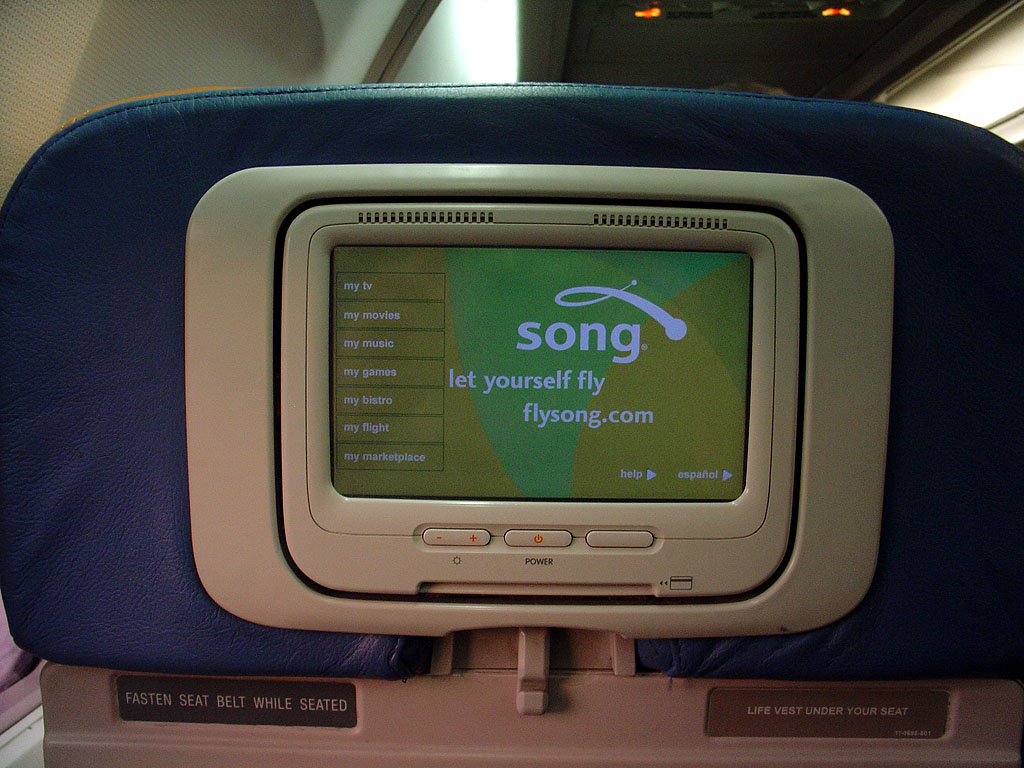 IFE Inflight Entertainment Photo Copyright: Anosh Tamboowala